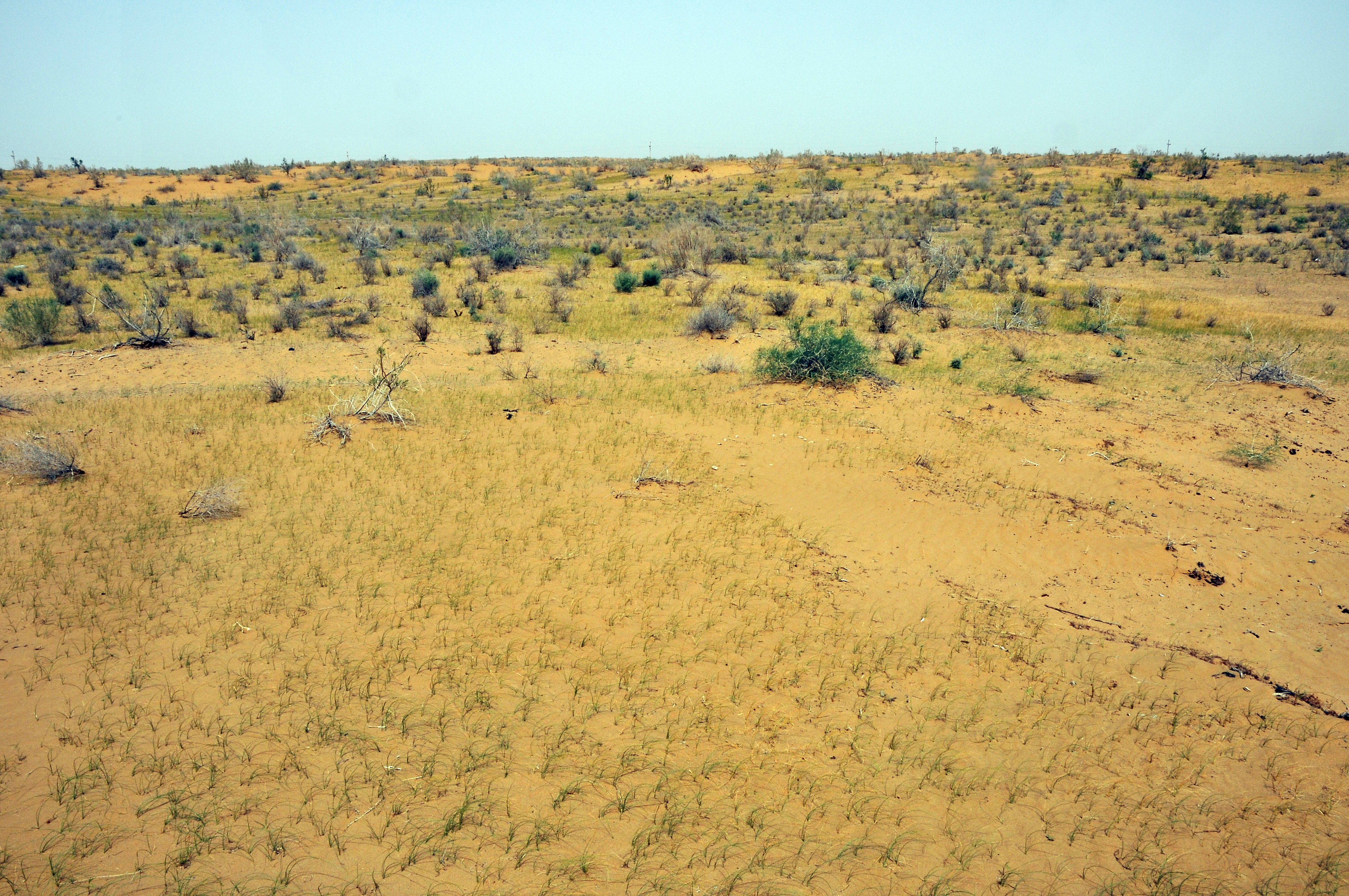 Qizil Qum desert (Bukhara, Uzbekistan)